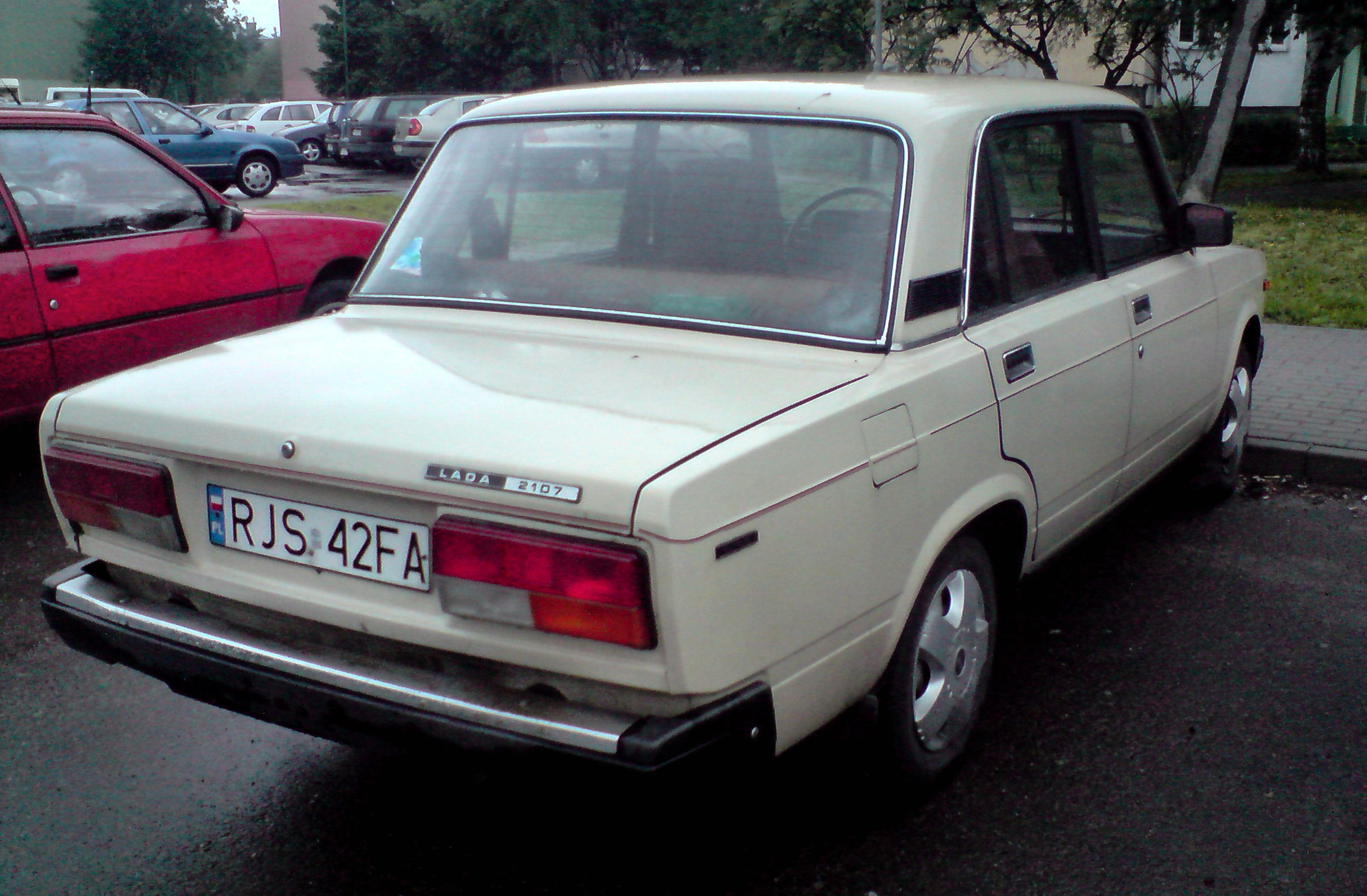 Lada 2107 seen in Jasło, Poland.